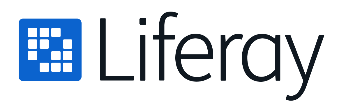 Company logo